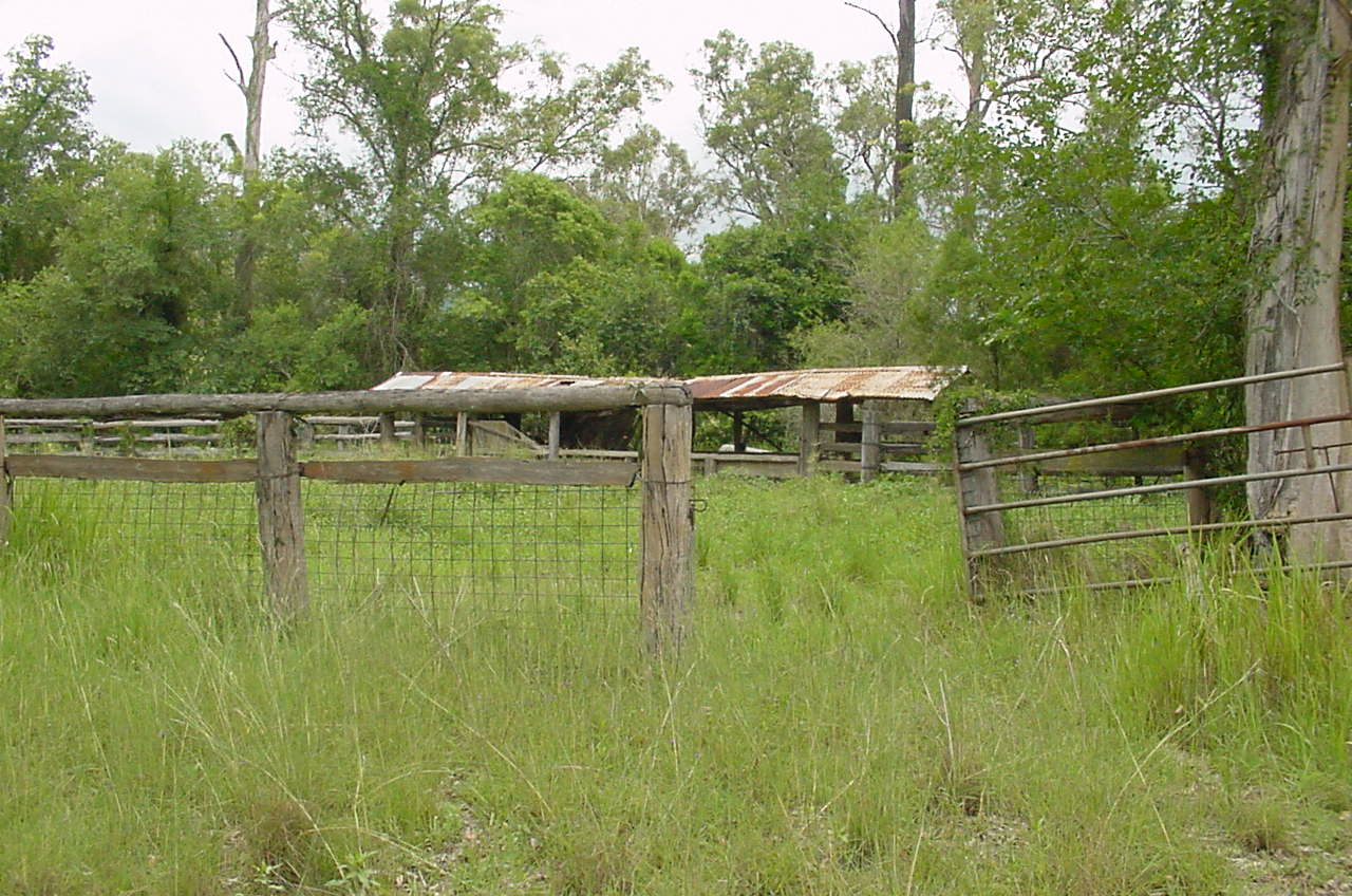 View of cattle dip and stock yards.